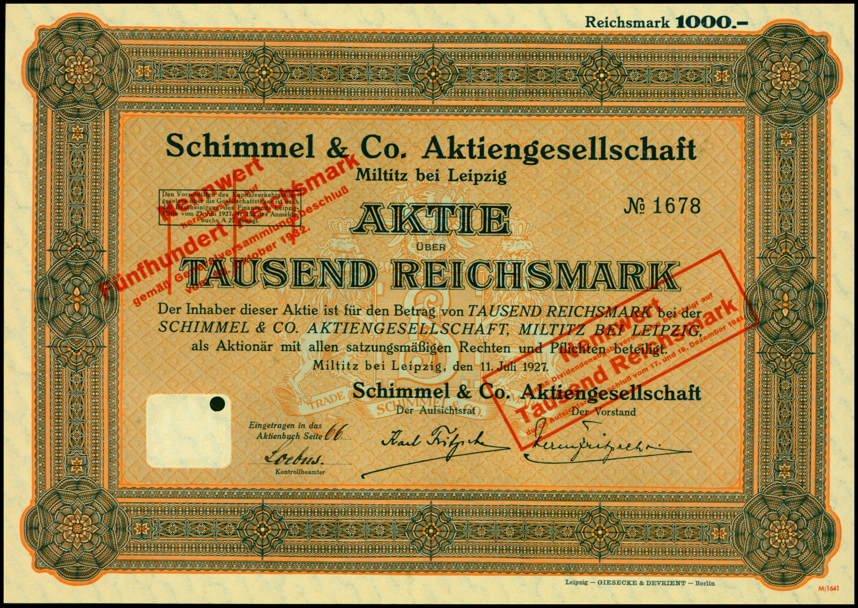 Share of the Schimmel & Co. AG, issued 11. July 1927